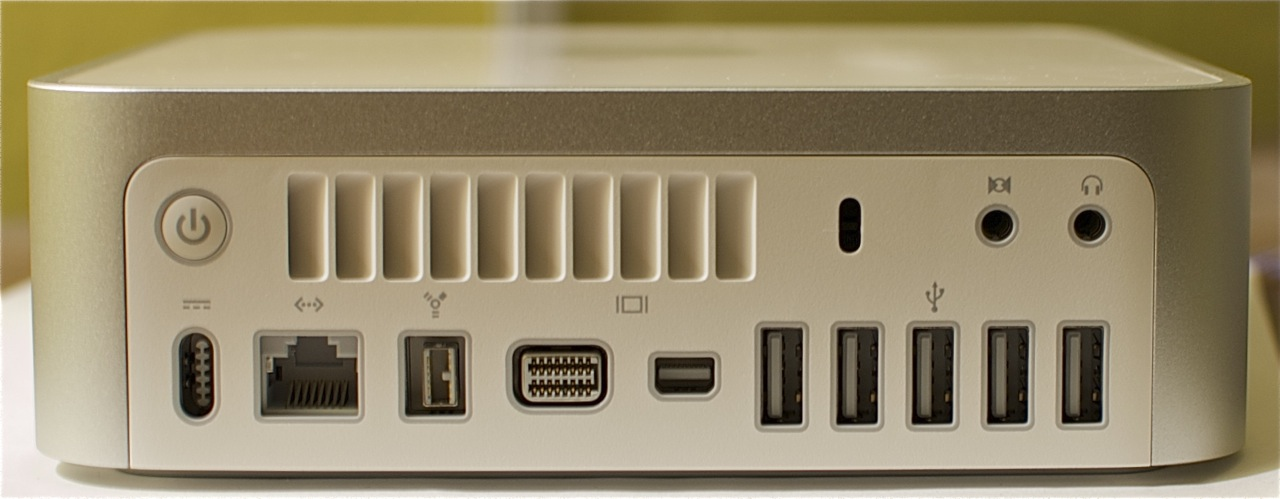 Back panel of the Mac Mini, late 2009 model. Shown are the power port, Ethernet, Firewire 800, mini-DVI, mini-DisplayPort, 5 USB ports and line in and out jacks.